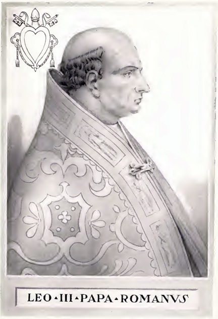 This illustration is from The Lives and Times of the Popes by Chevalier Artaud de Montor, New York: The Catholic Publication Society of America, 1911. It was originally published in 1842.